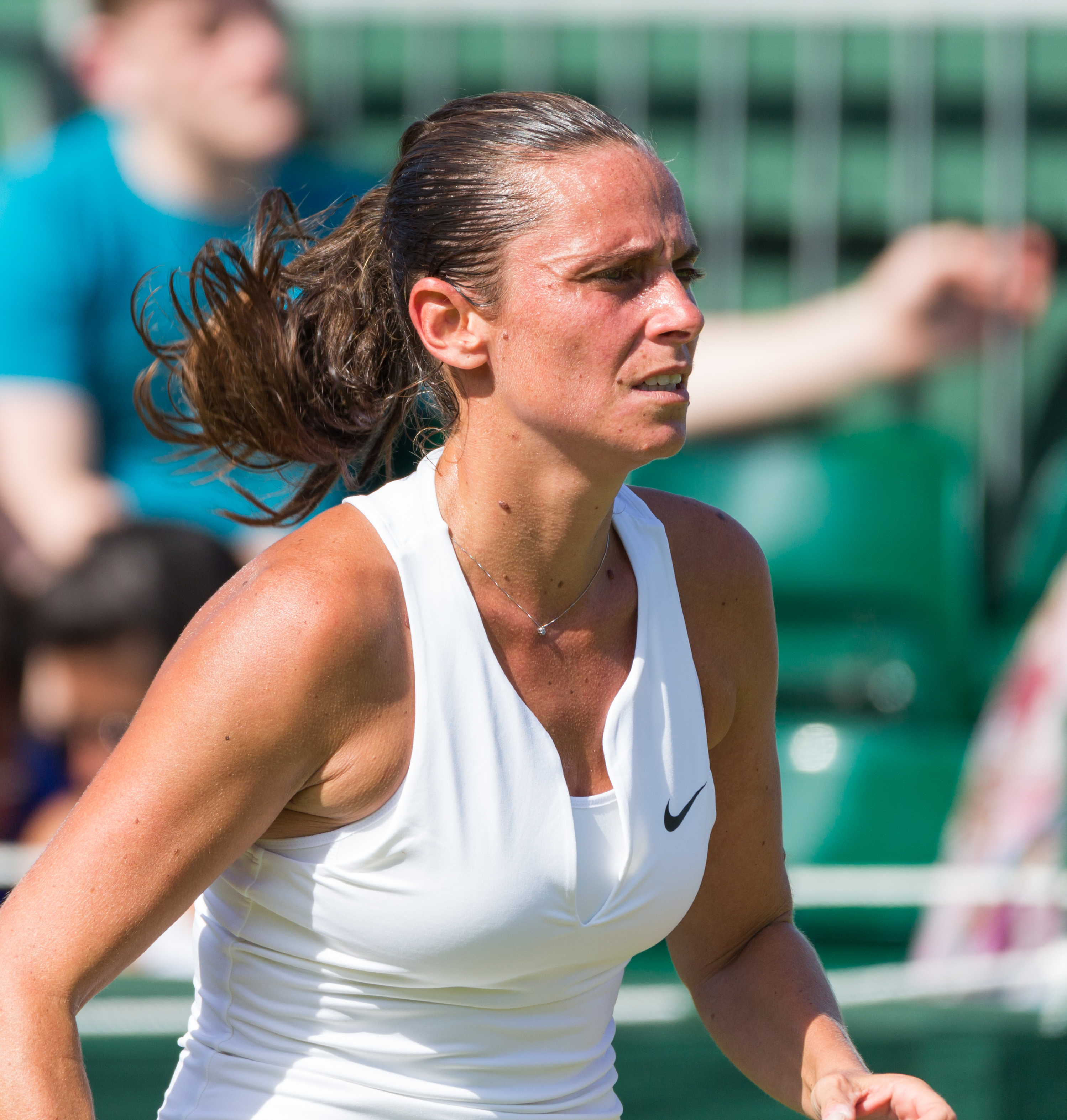 Roberta Vinci competing in the first round of the 2015 Wimbledon Championships.